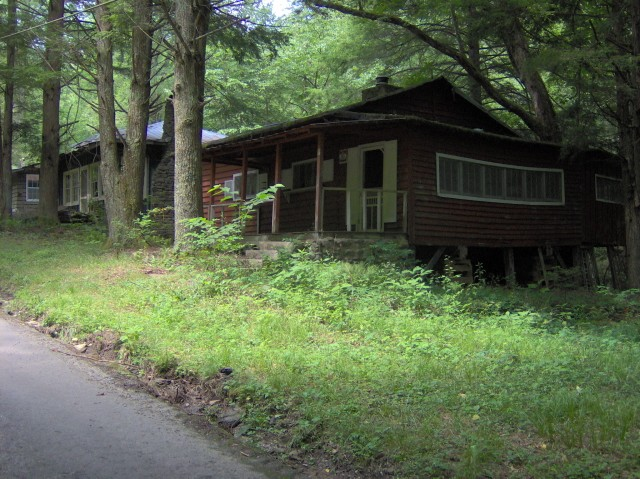 Rustic cottages in the Appalachian Club section of Elkmont, GSMNP, in East Tennessee. This area was once called "Society Row." The cottages became the property of the National Park Service in 1992, and fell into disrepair.